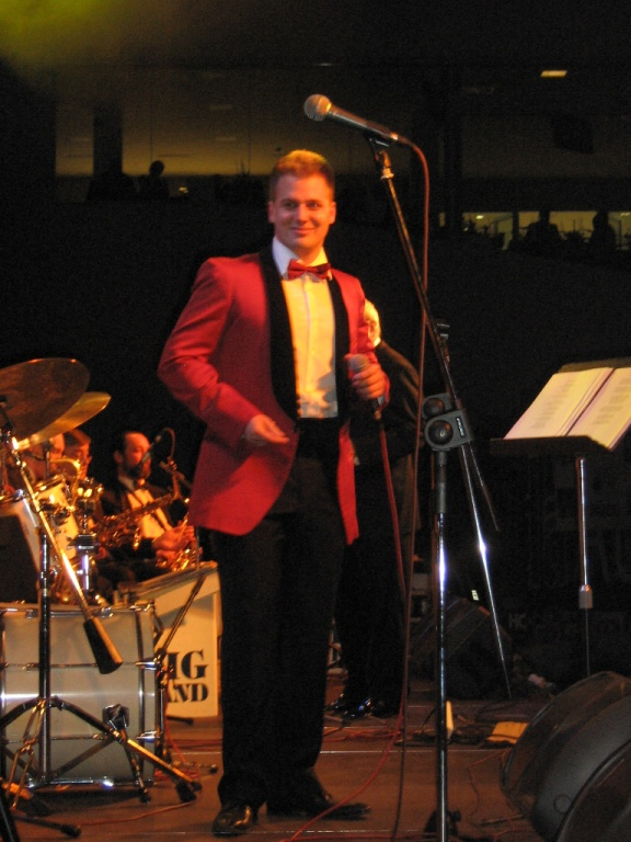 Ice revue in Česke Budějovice